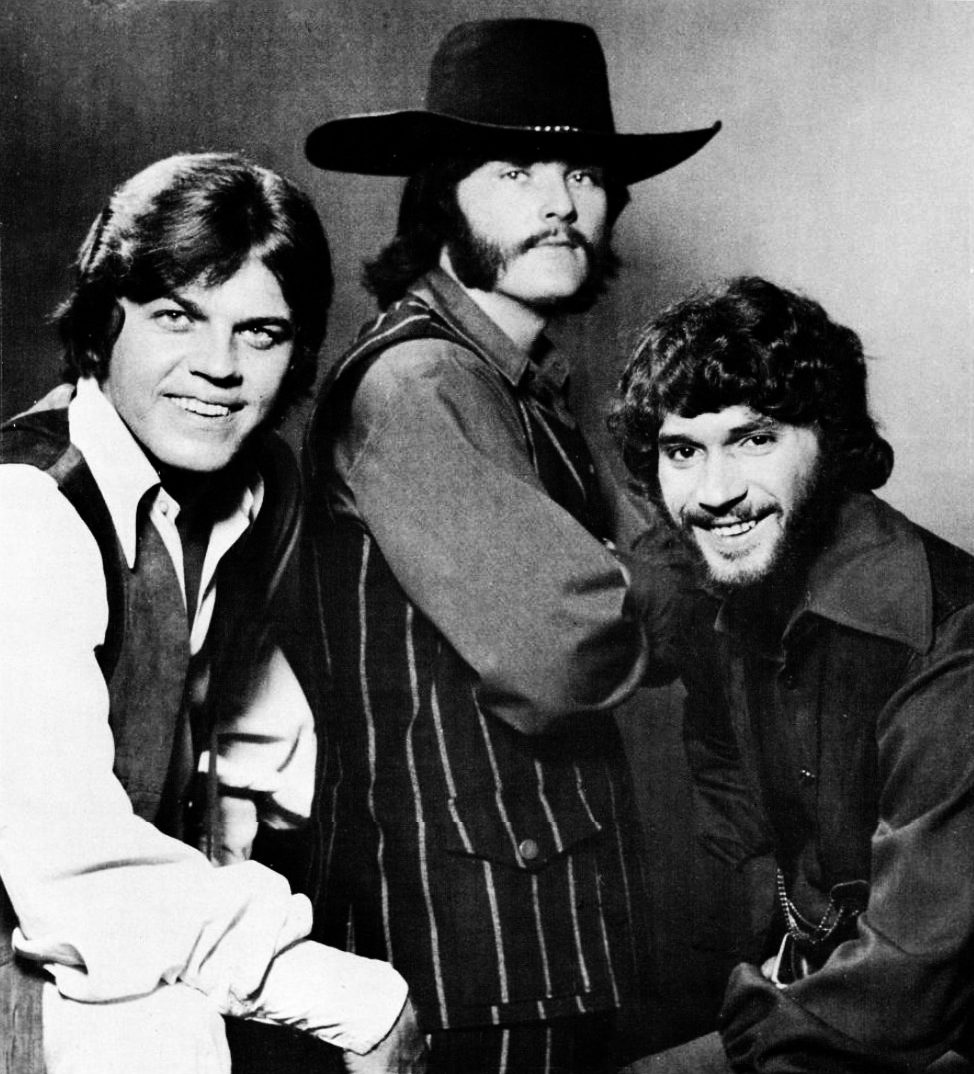 Trade ad for The Stampeders's single "Carry Me".To better adapt it to his respective Wikipedia article, the ad was cropped and cleaned in a graphics editing program. The original can be viewed at the source below.